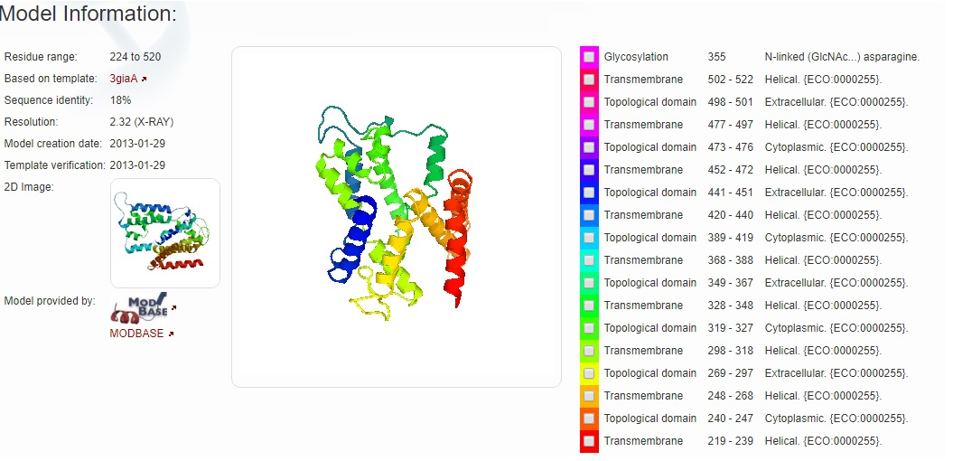 This is the protein sequence of the HAK5 K+ transporter